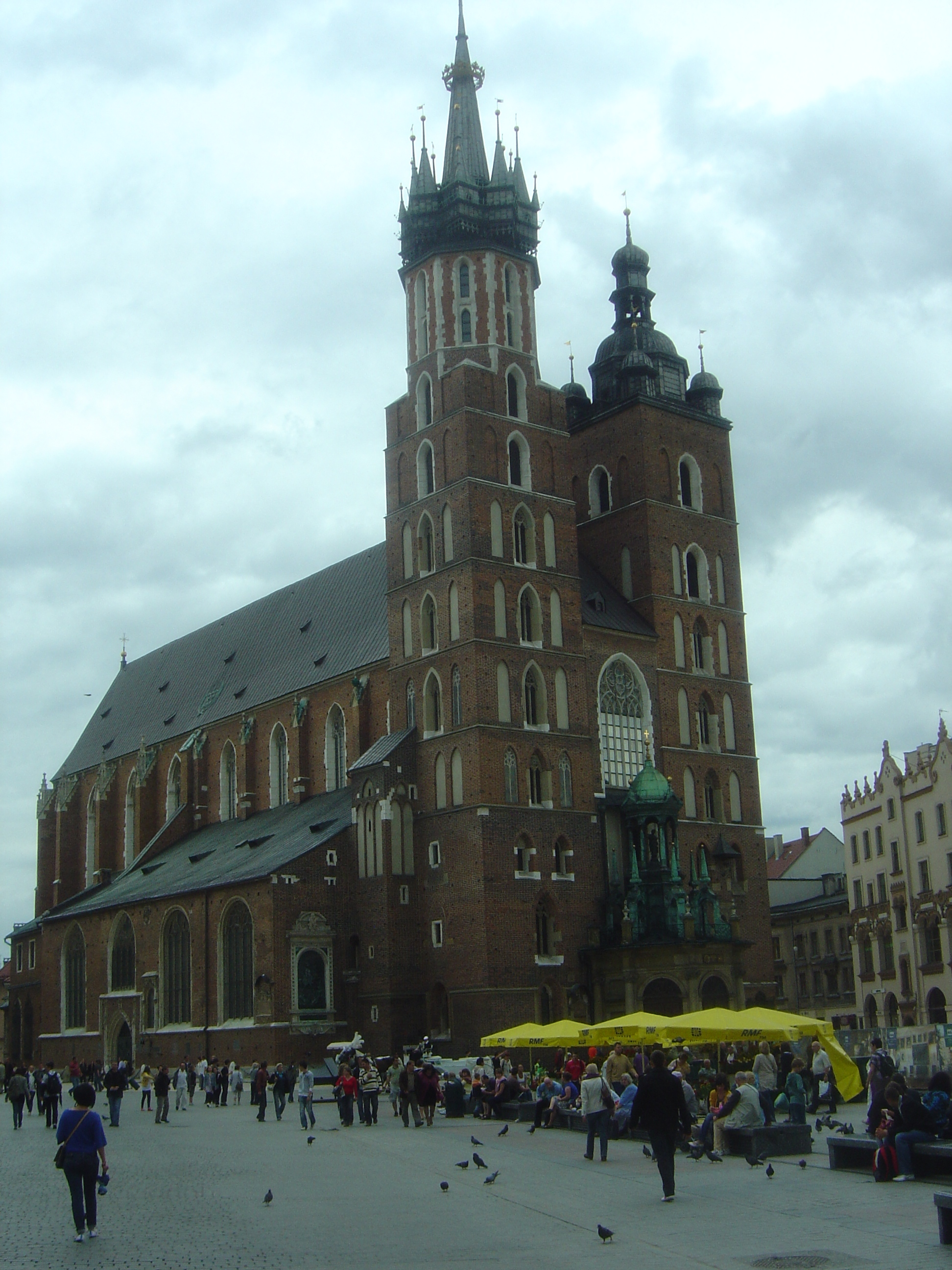 St. Mary' s Church in Krakόw